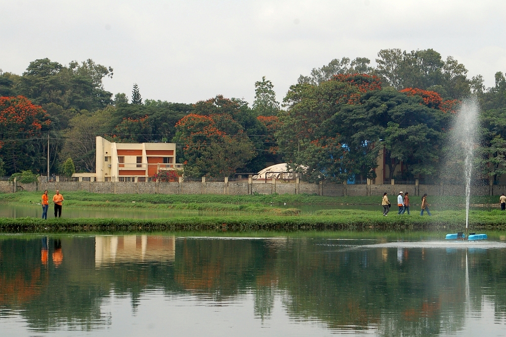 Fountain was donated as a part of Go-Green Activities in Bagmane Tech Park Lake Cleaning project in 2010